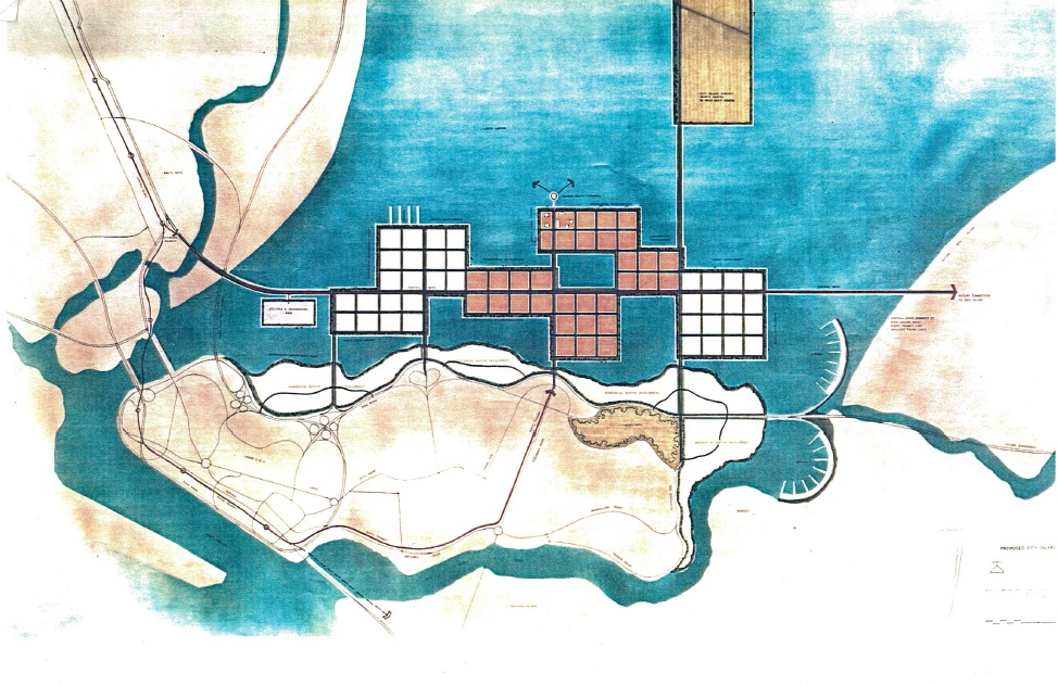 Lagoon City - Architectural Image_1